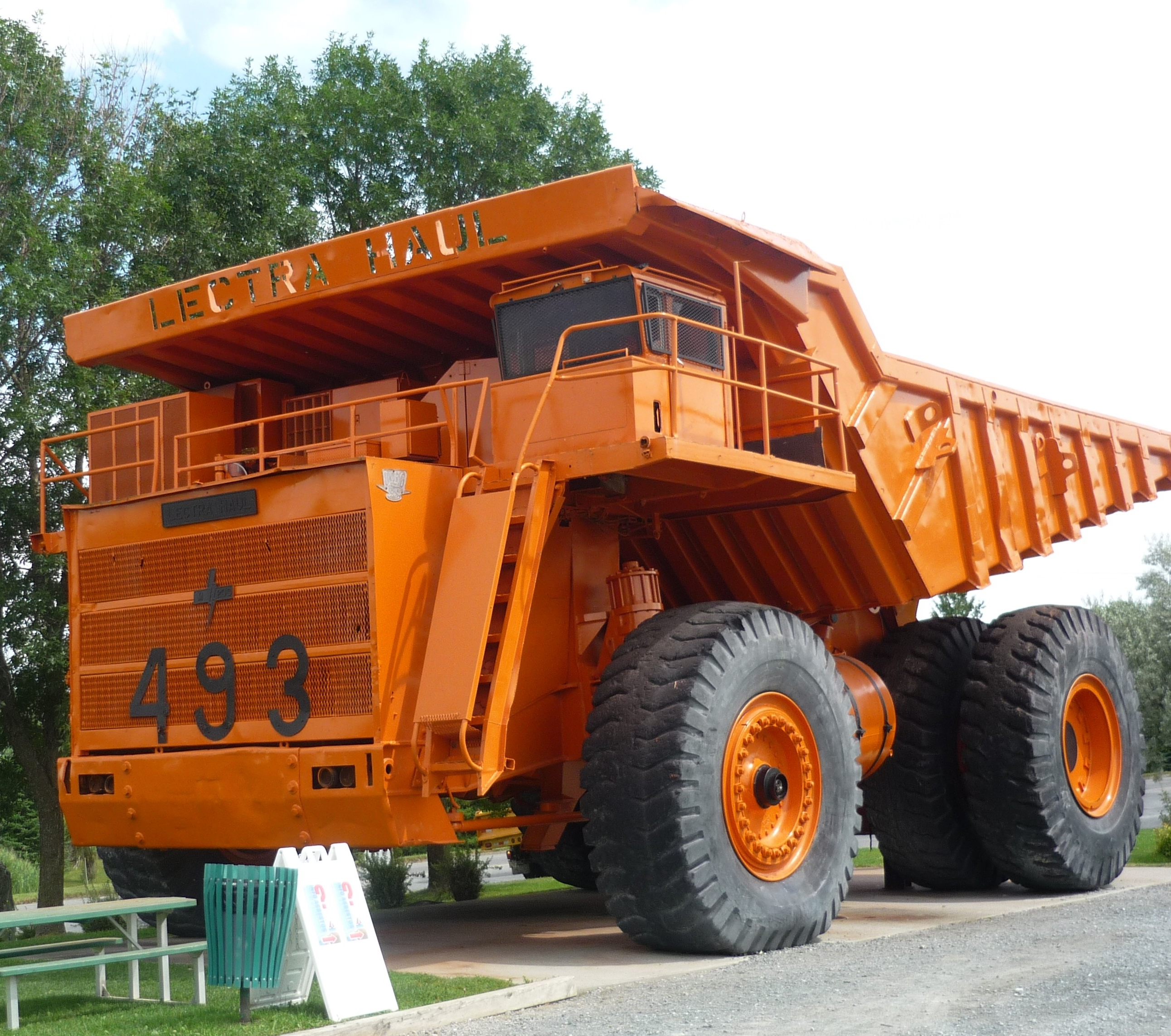 Lectra Haul dump truck in Asbestos, Quebec. Giant mining truck; Diesel-electric drive. Lectra Haul was the trademark name for trucks built by Unit Rig, becoming part of Terex and sold to Bucyrus International (web source).